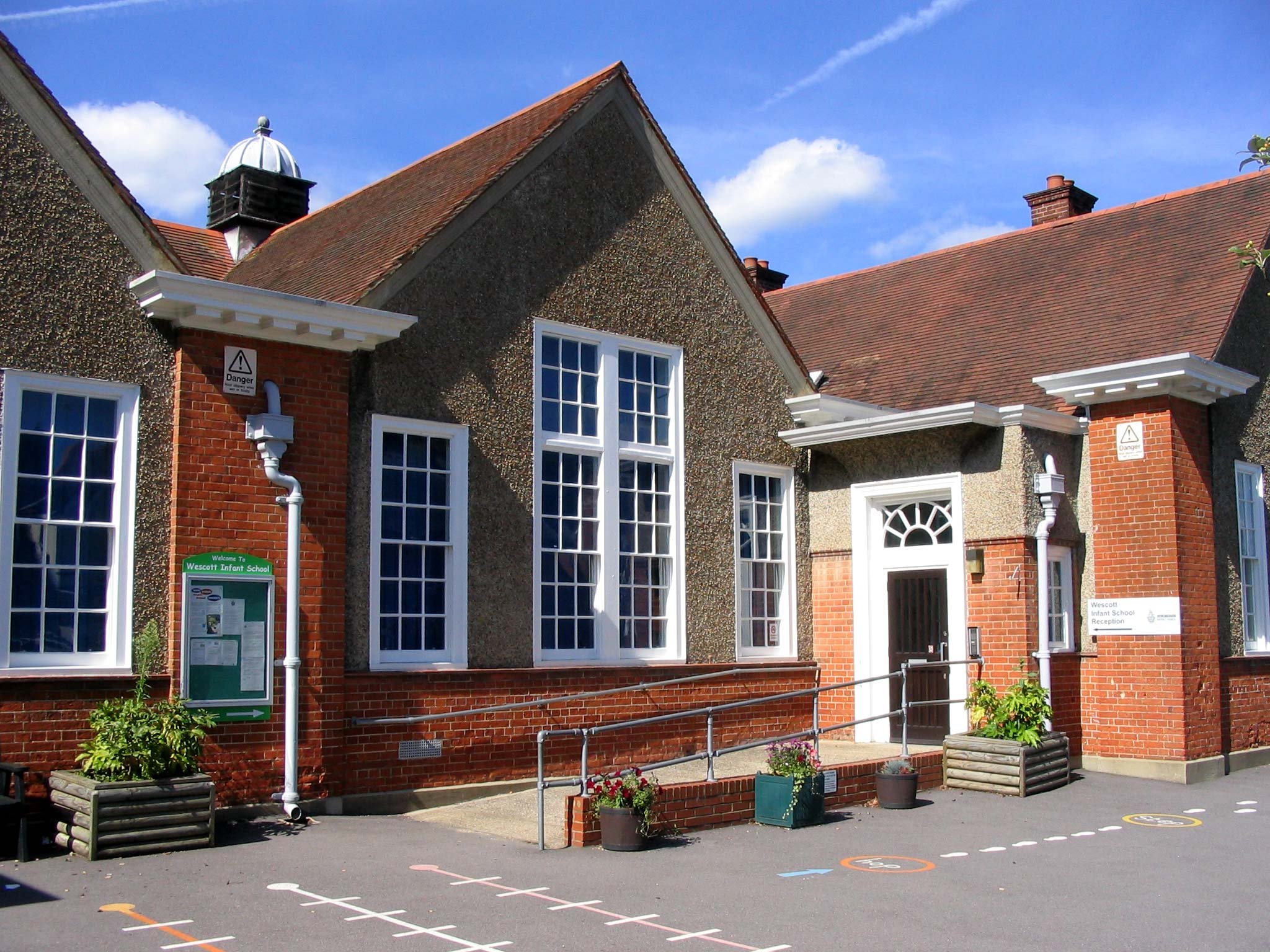 Front entrance of Westcott School in Wokingham, Berkshire, England.